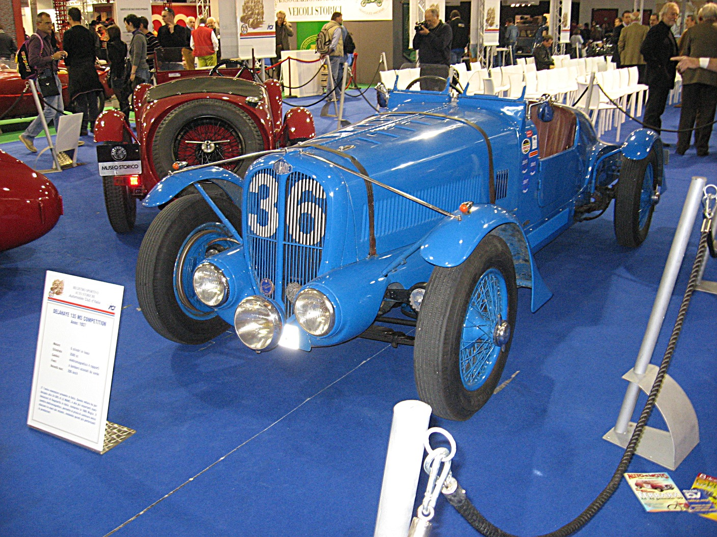 Subject: 1937 Delahaye 135MS Competition Date:October 26th, 2008 Event: Auto e Moto d'Epoca 2008 Place/Country: Padova, Italy I release all rights in the public domain.